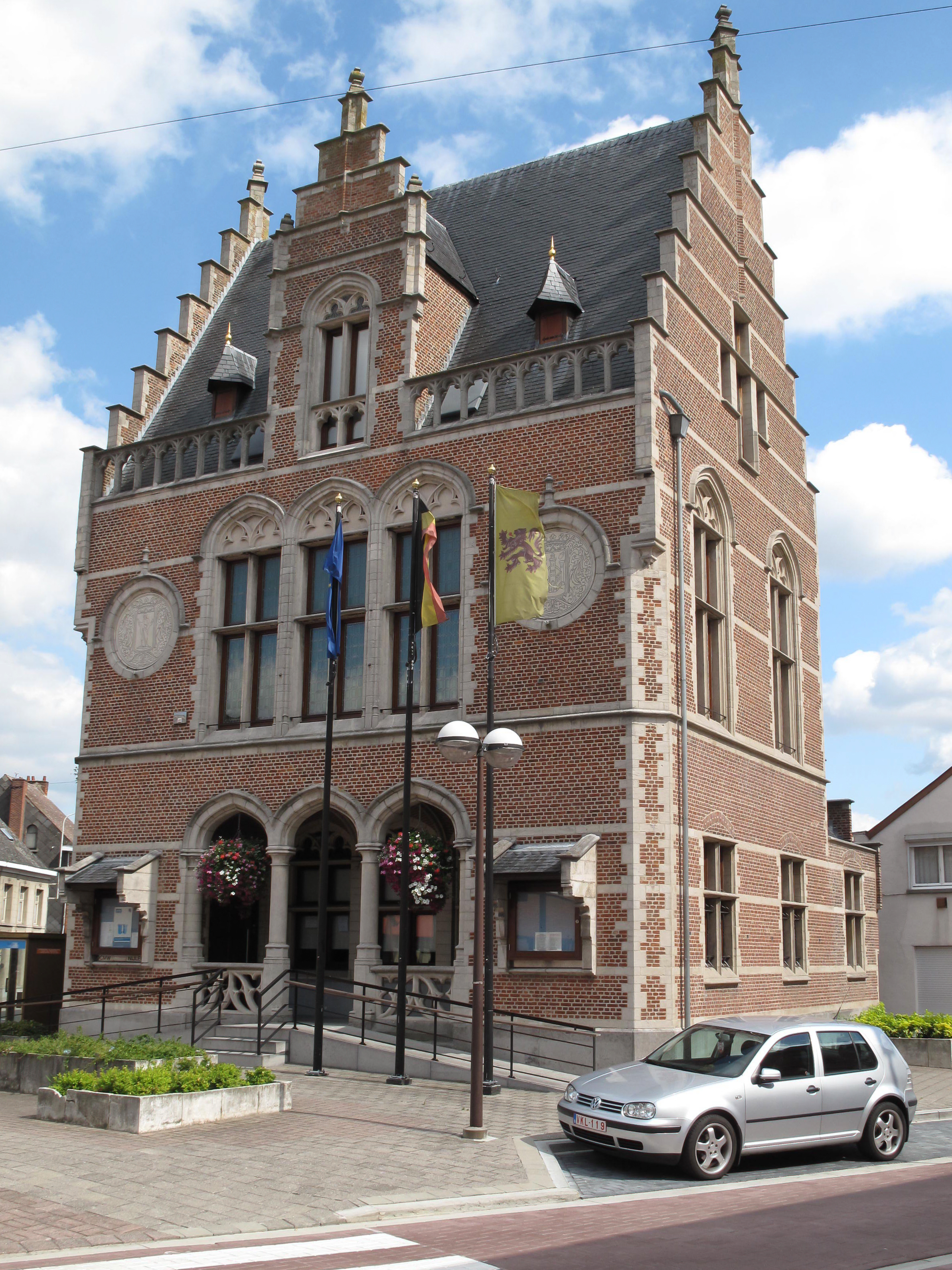 Kessel (Belgium), town hall